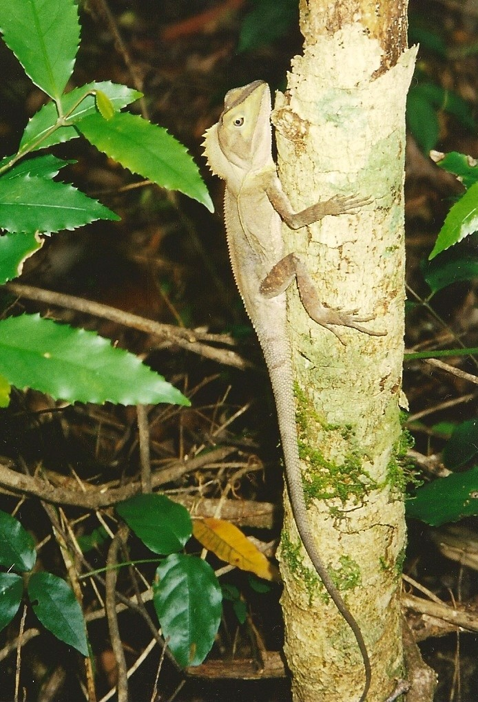 Hypsilurus_spinipes_-_Southern_Angle_Headed_Dragon_-_Boorganna_Nature_Reserve, NSW, Australia & leaves of Socketwood (Daphnandra micrantha)